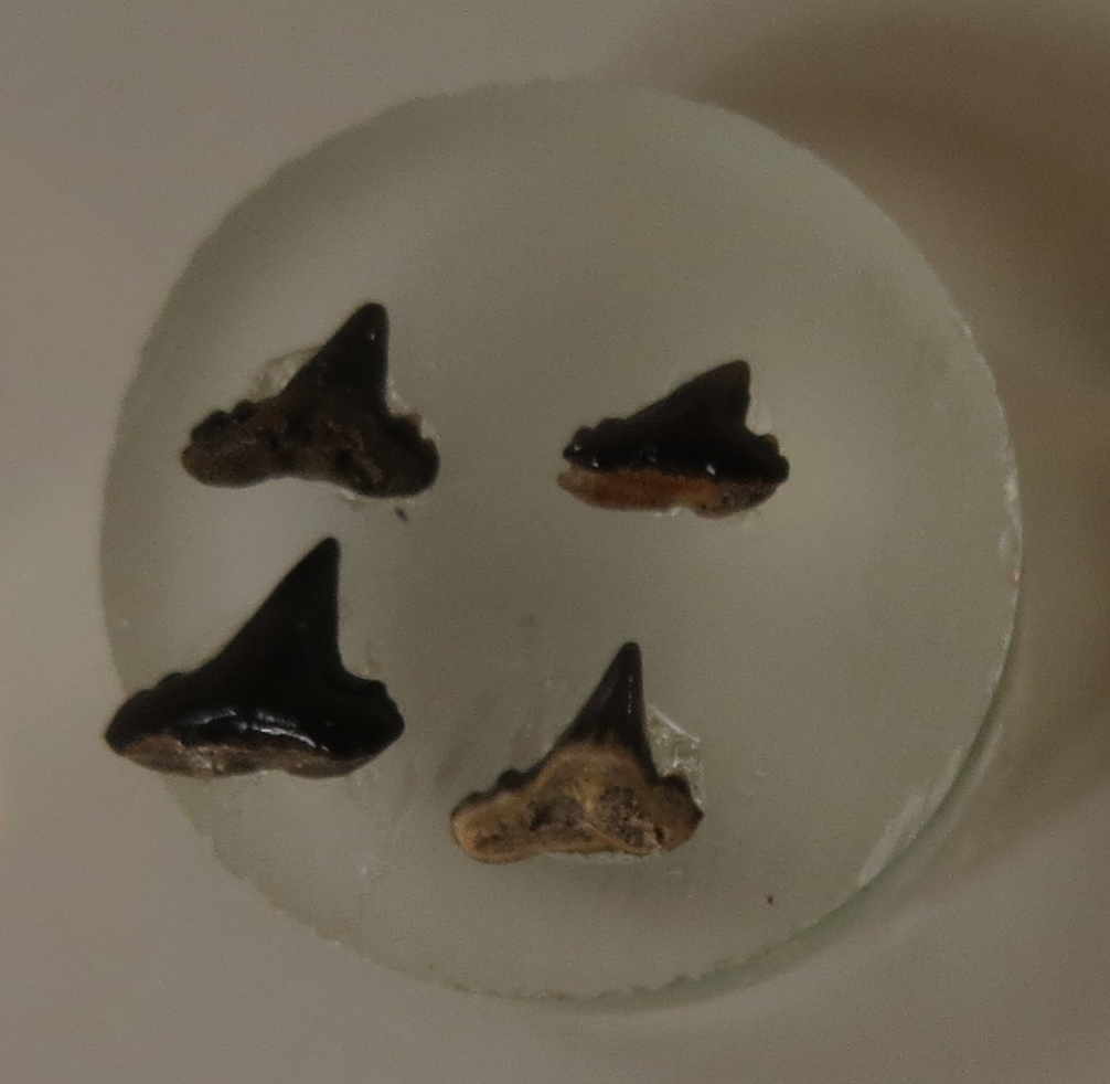 Fossil of Palaeogaleus - Took the picture at Naturalis, Leiden